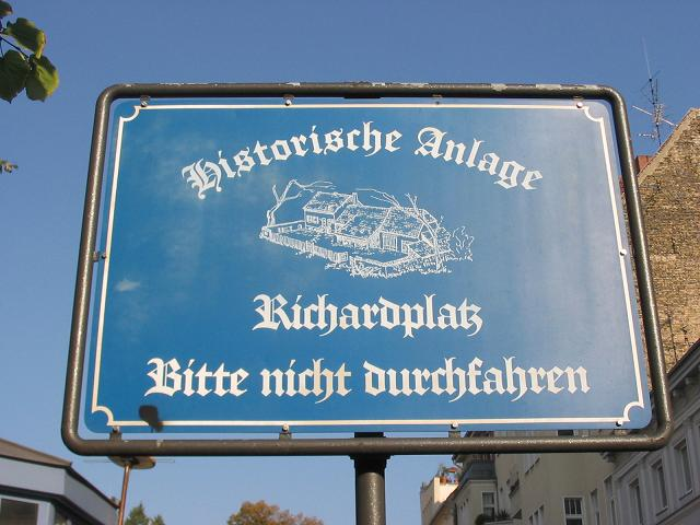 Berlin-Neukölln, historical center, until 1912 named "Rixdorf"; Richardplace, traffic sign with historical forge or smithy. October 2005, picture taken in Berlin-Neukölln, Germany